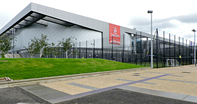 Emirates Arena